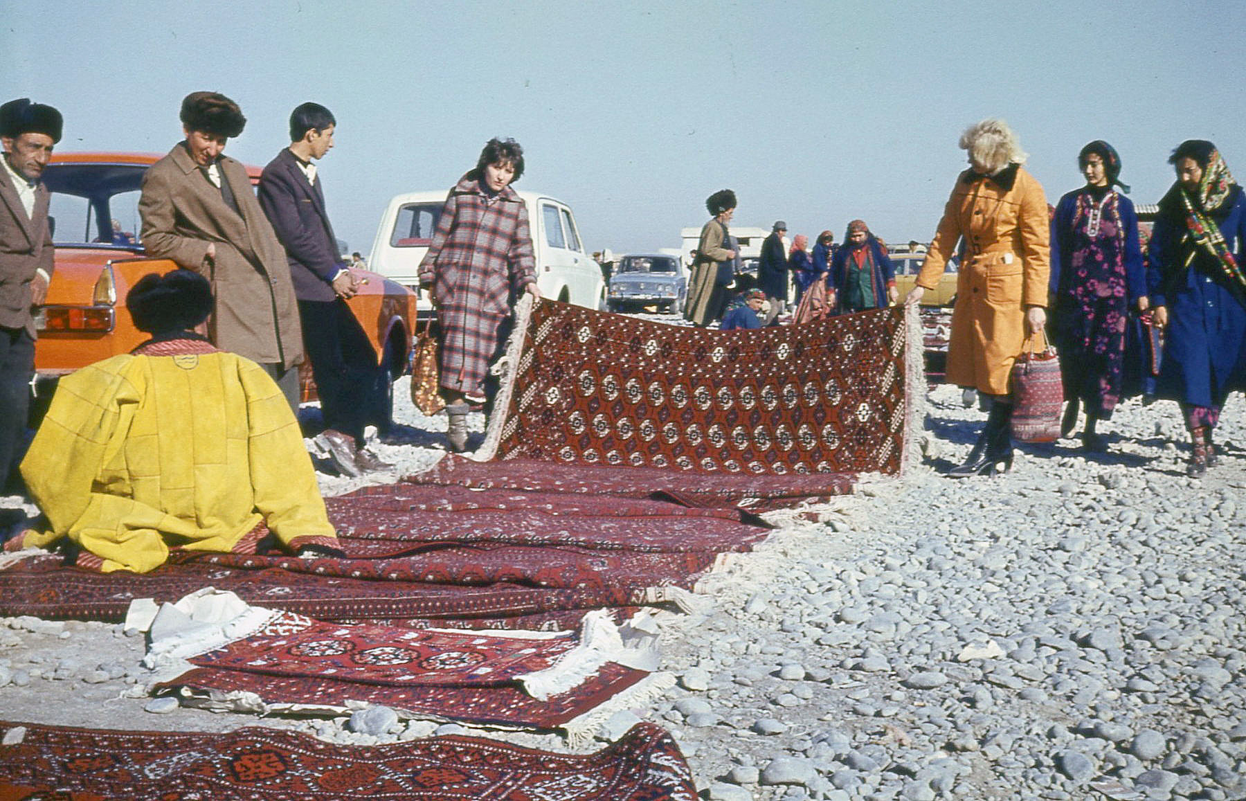 Tekinsky bazar in Mary